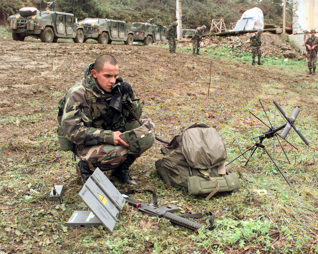 Cpl. Carlos Rivera, U.S. Army, uses a satellite phone to establish communications from the field in the village of Skugrici, Bosnia and Herzegovina, on Oct. 20, 1999. Rivera is the radio operator for the Commander of Multi National Division North and is deployed to Bosnia and Herzegovina in support of Operation Joint Forge.